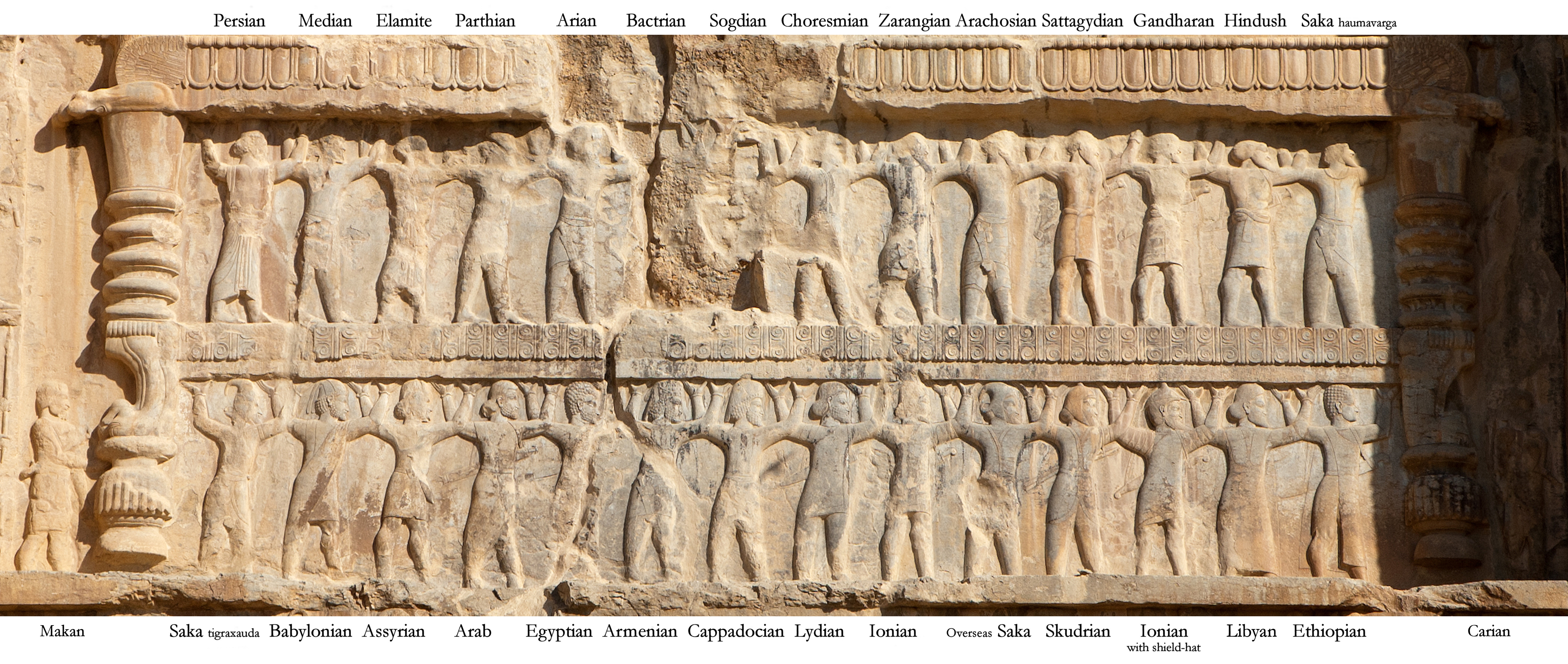 Persepolis Tomb of Artaxerxes II Mnemon (r.404-358 BCE) Upper Relief soldiers with labels. On the lintel over each figure appears a trilingual inscription (visible in the photograph) describing the ethnicity [1]. These are regrouped under inscription A2Pa